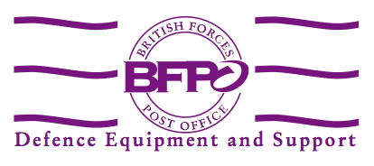 British Forces Post Office logo.